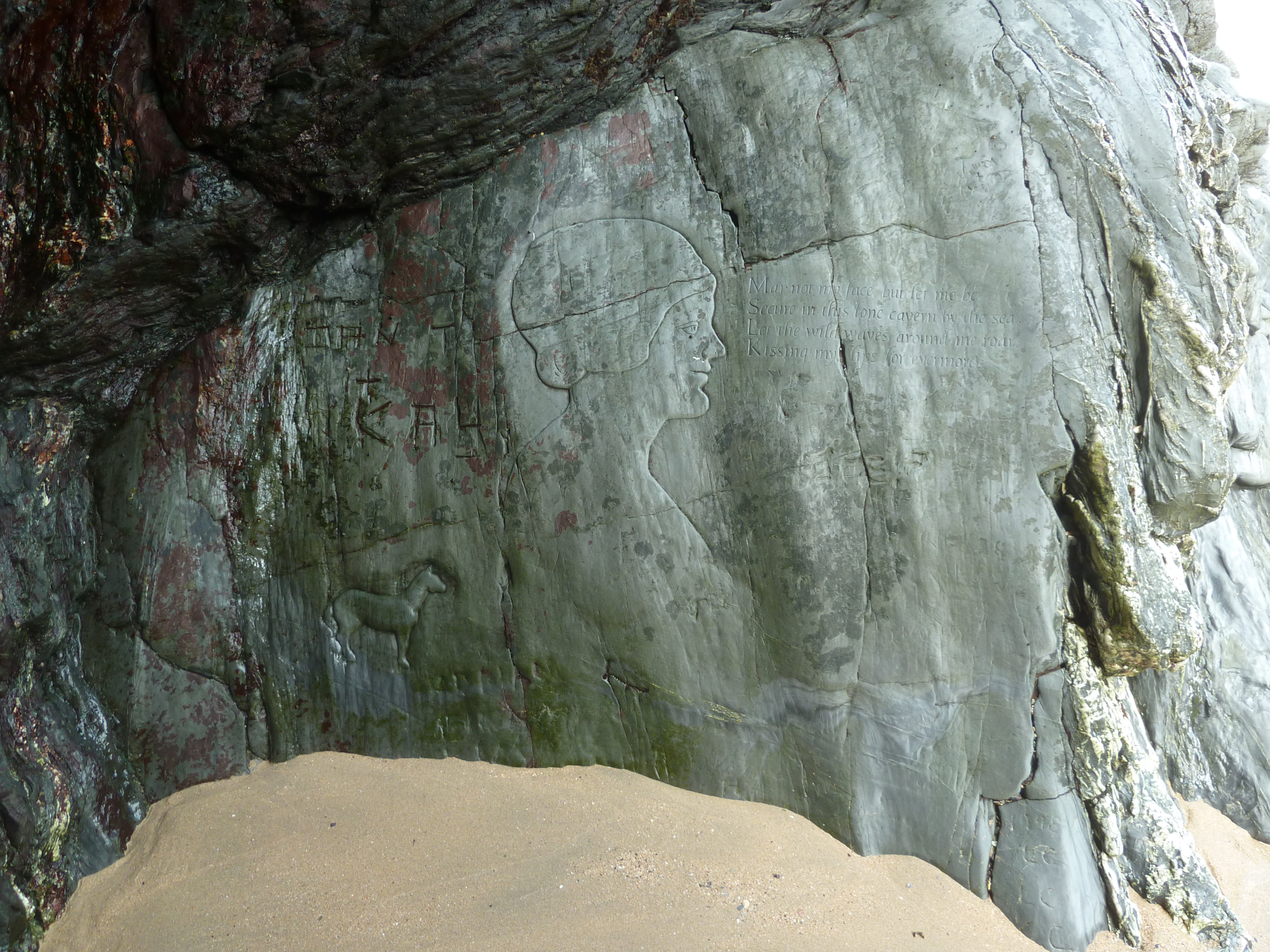 In the early twentieth century a woman was horse riding along Crantock beach. She and her horse got cut off as the tide came in and the rough seas swept them away drowning them both. Her distraught lover carved a poem into a rock, in a cave on the beach, along with a portrait of his lost love and her horse.